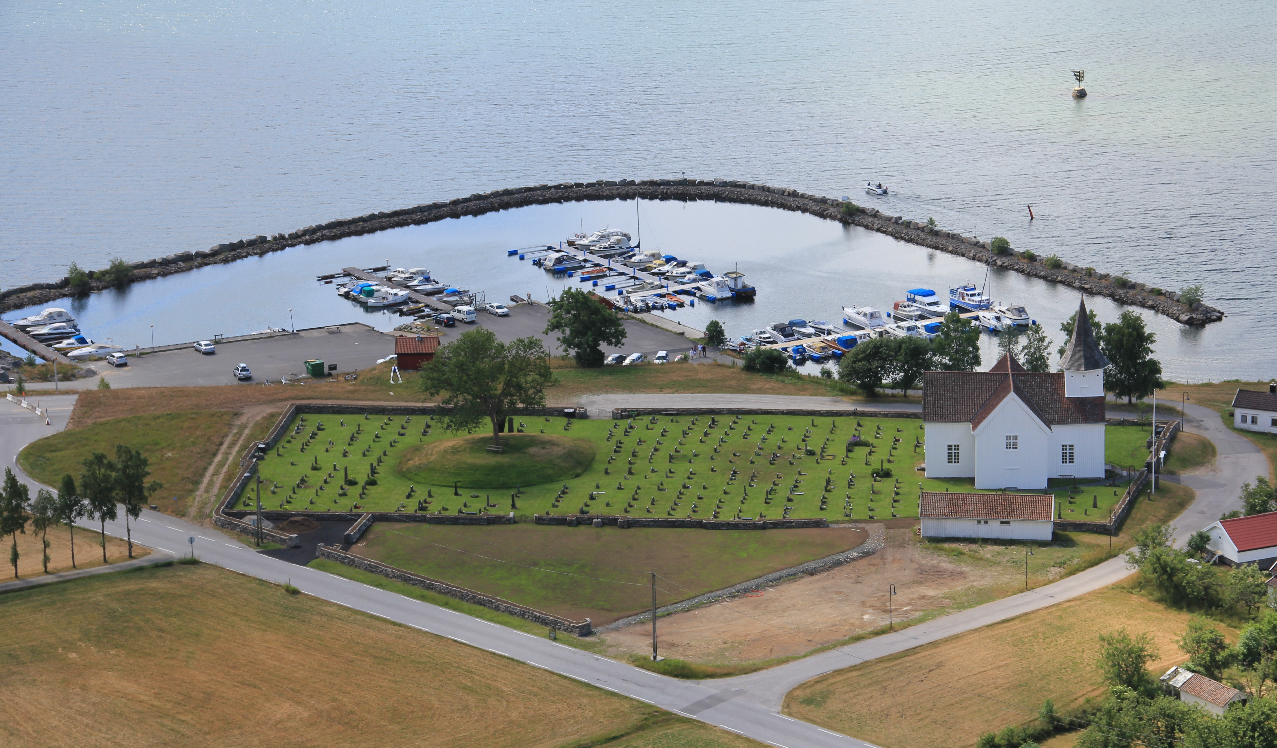 Feda kirke, Feda Church and graveyard.